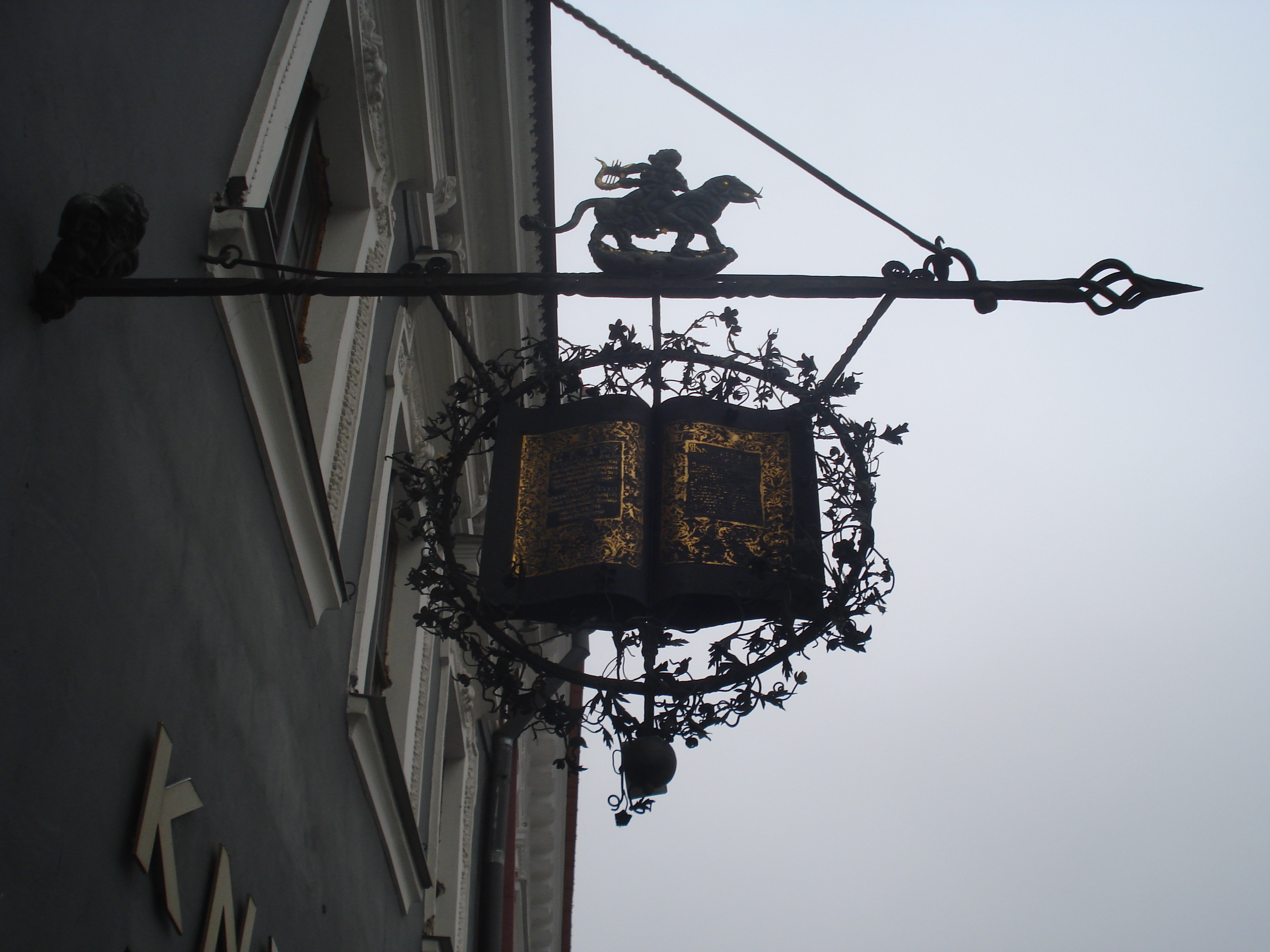 Board of the bookstore in Vilnius (depicts the first Lithuanian book; created by Petras Repšys, born 1940; Didžioji g. 27)